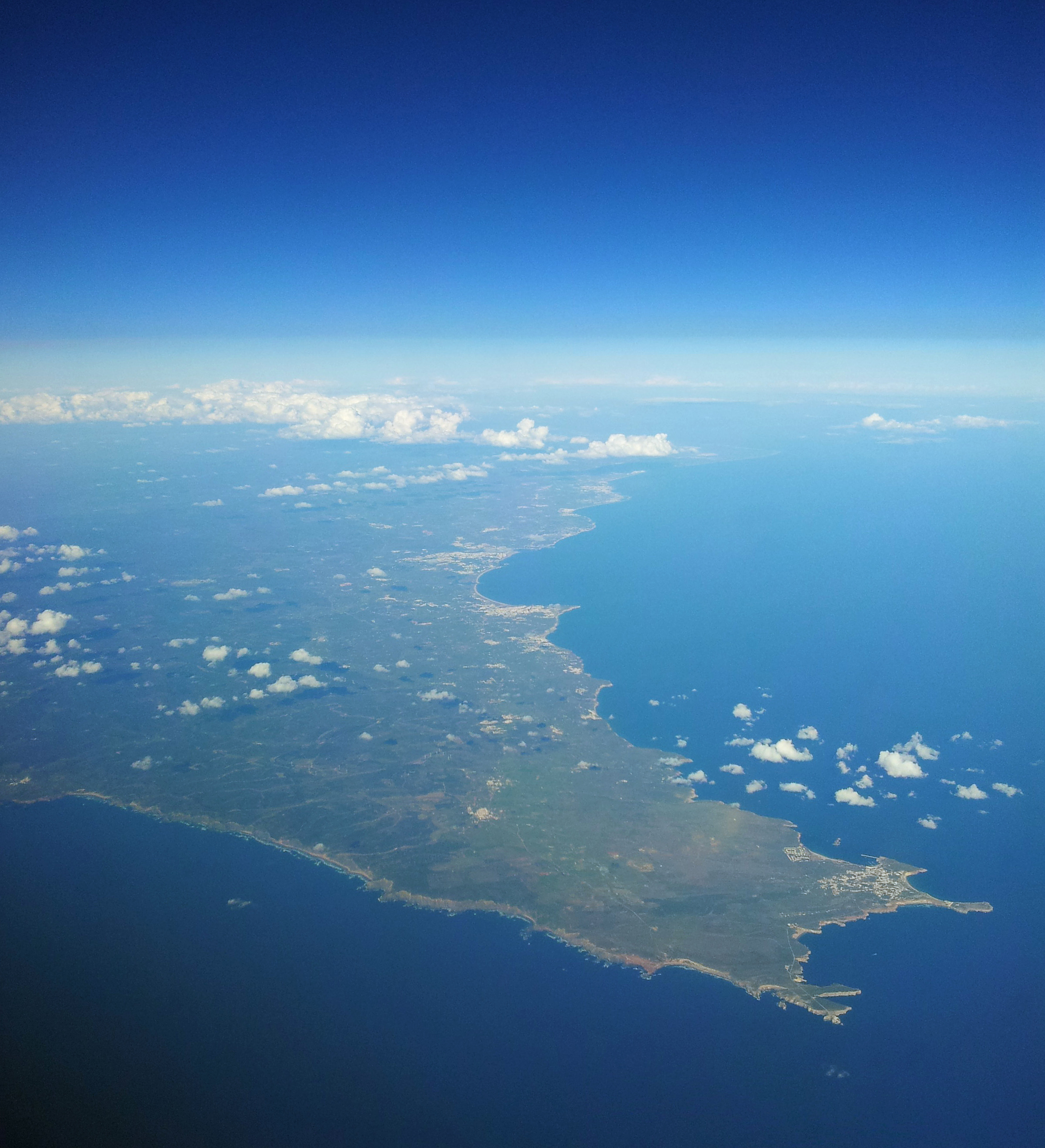 The Algarve coast, seen from a height of 10,000 metres (33,000 ft) above sea level.